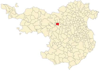 Argelaguer